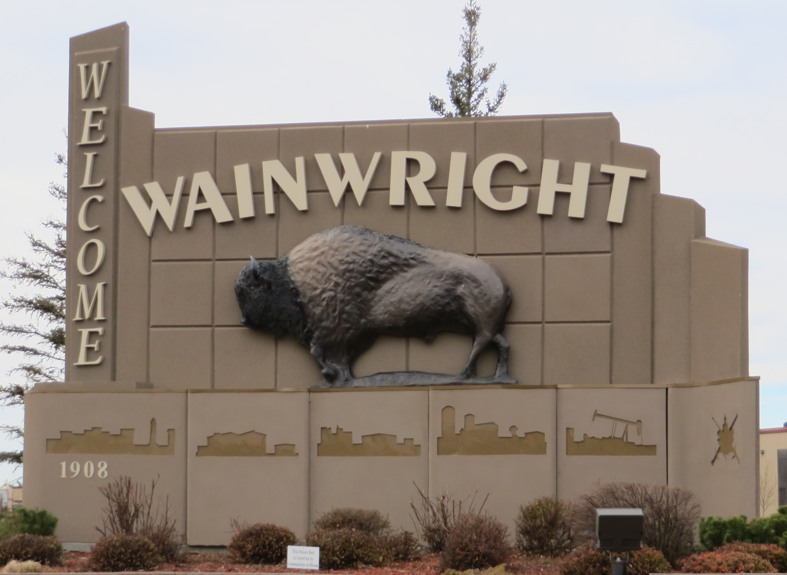 A sign welcoming motorists to Wainwright, Alberta, Canada.